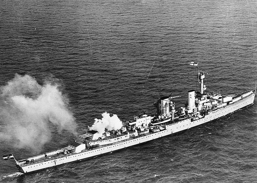 German Light Cruiser Königsberg firing salute (She is flying the British Royal Navy's White Ensign at her forepeak.)